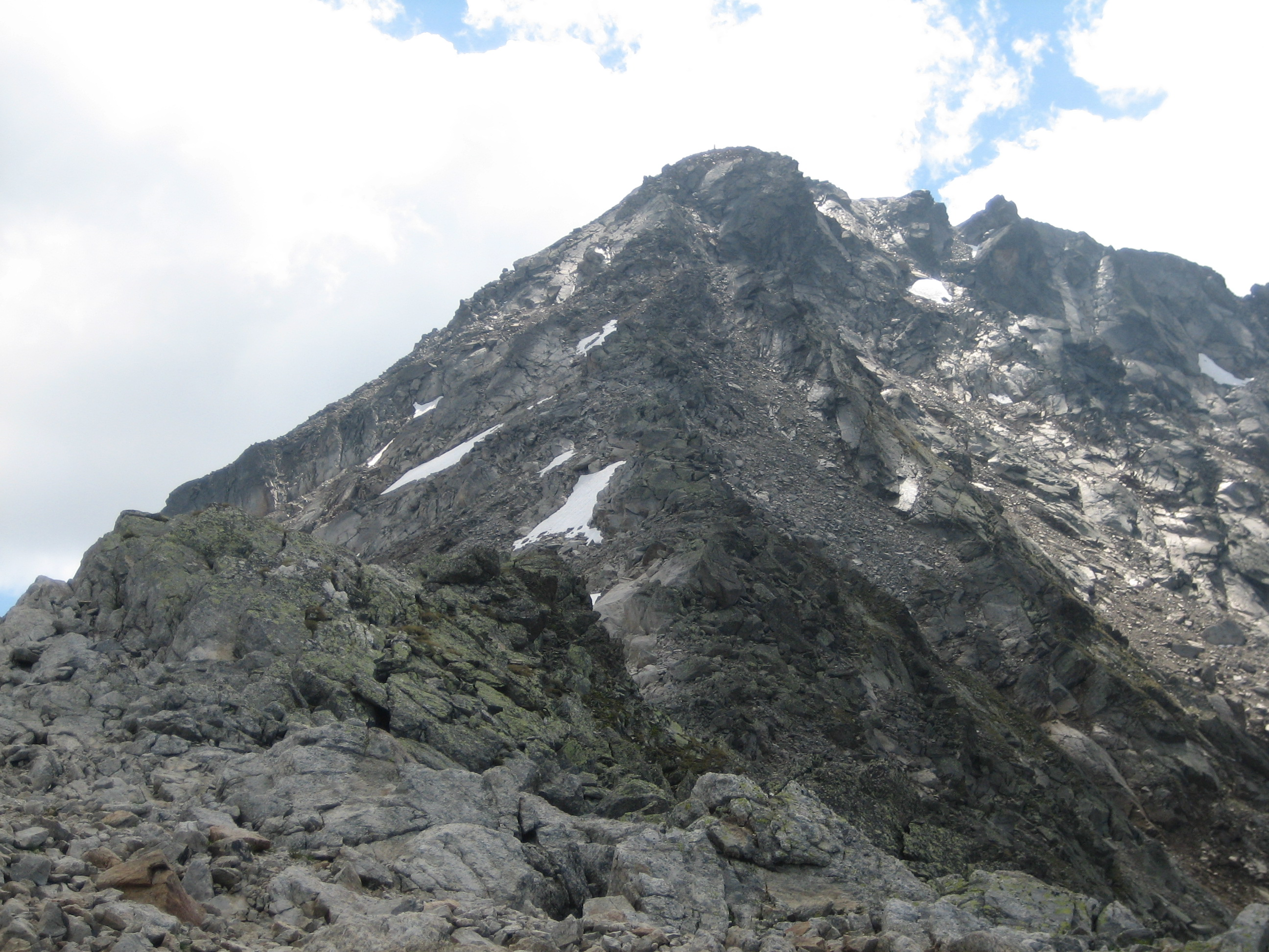 Flüela Wisshorn from North, Davos, Susch, Grison, Switzerland Rumantsch: Flüela Wisshorn, piglia se digl nord, Tavp, Susch, Grischun, Svizra